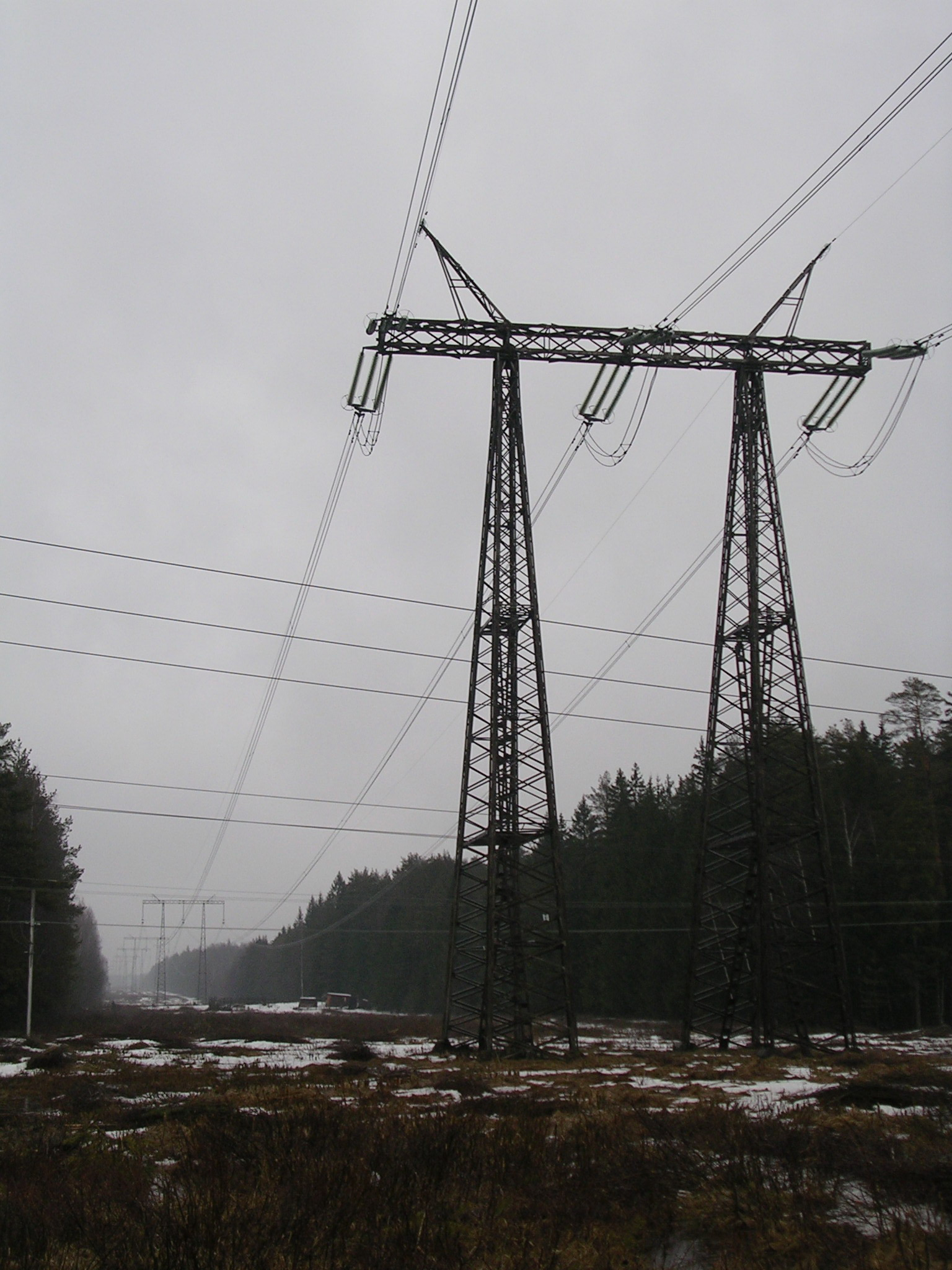 500 kV high-voltage power line Moscow–Togliatti